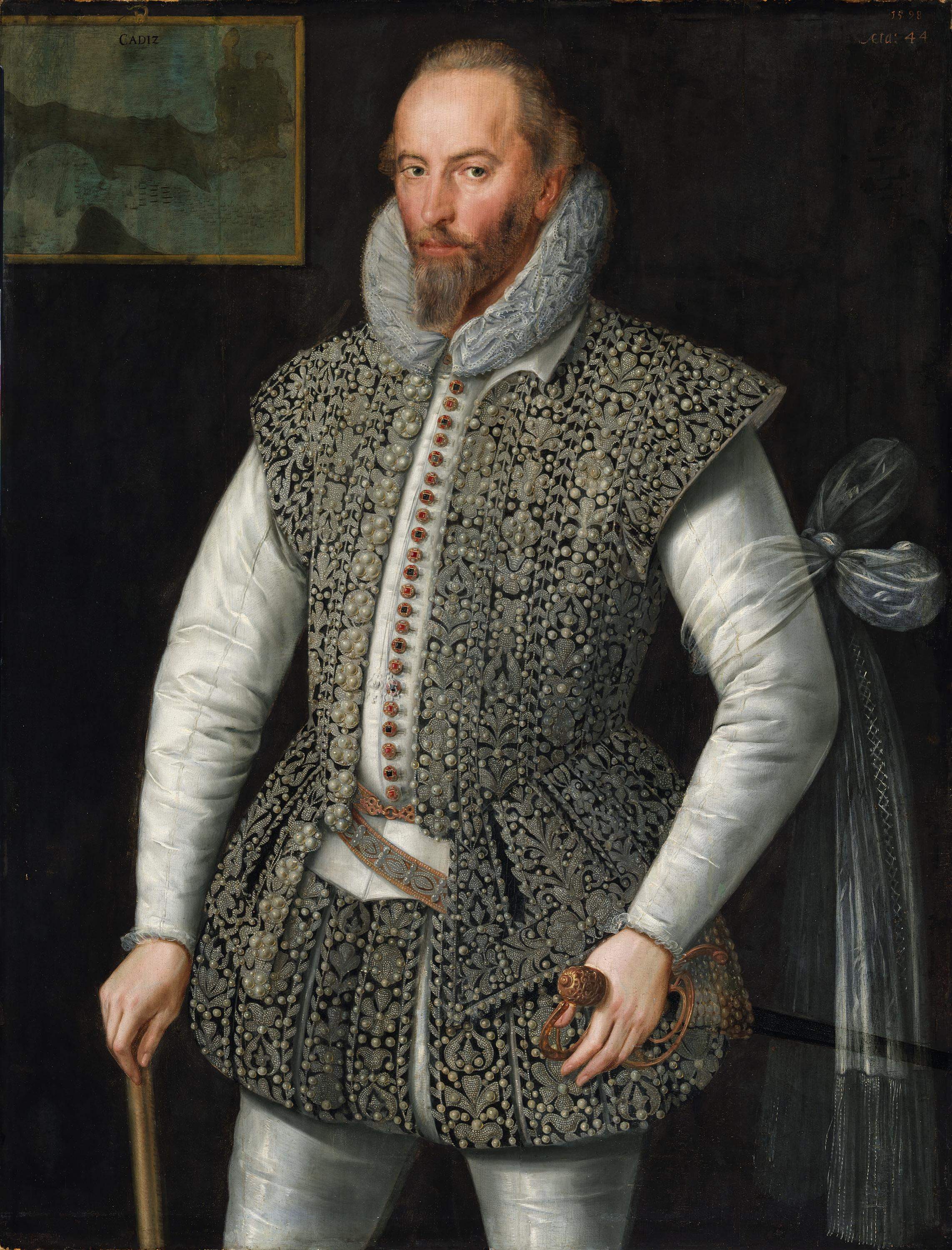 Portrait of Sir Walter Raleigh